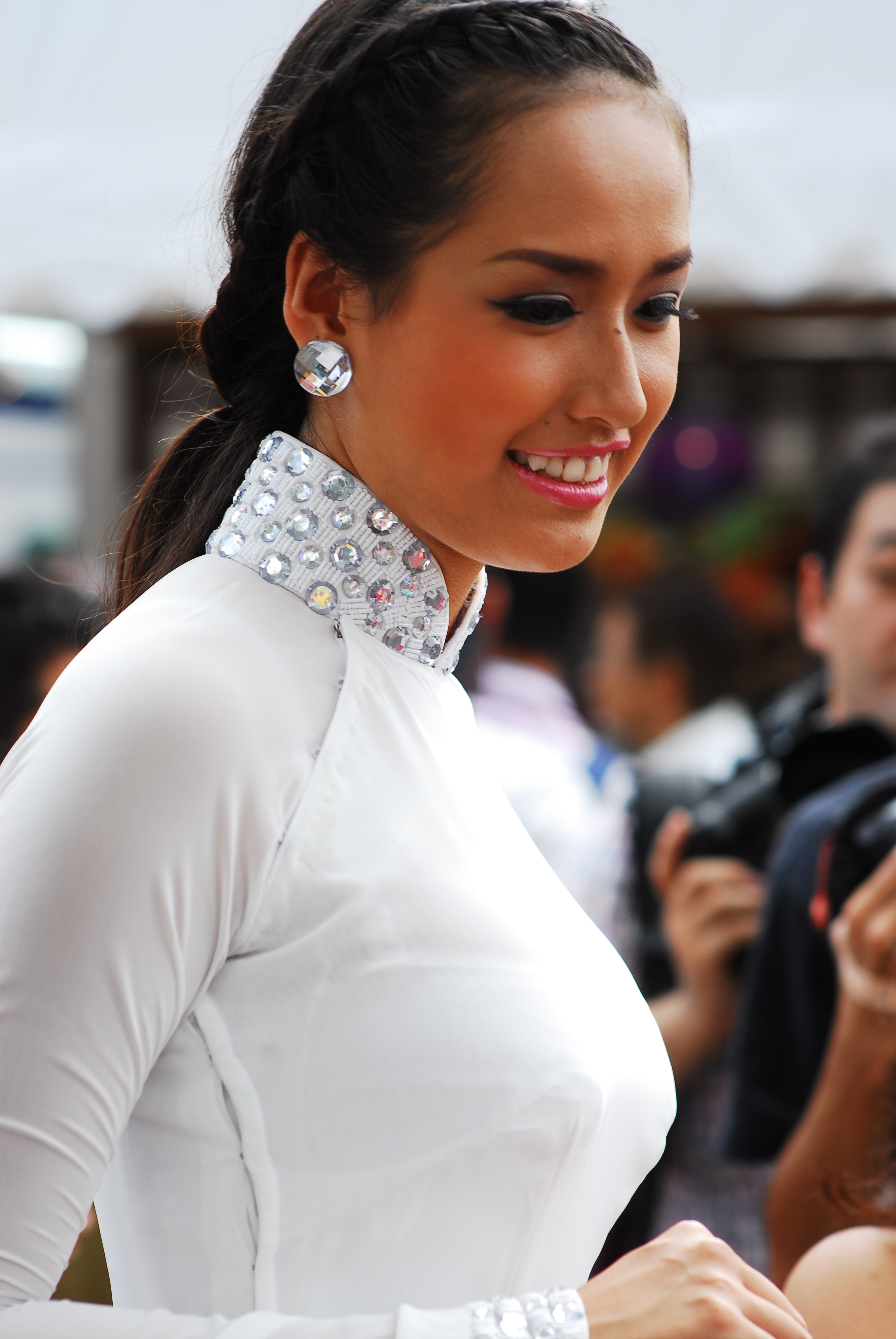 Mai Phương Thúy, Miss Viet Nam 2006